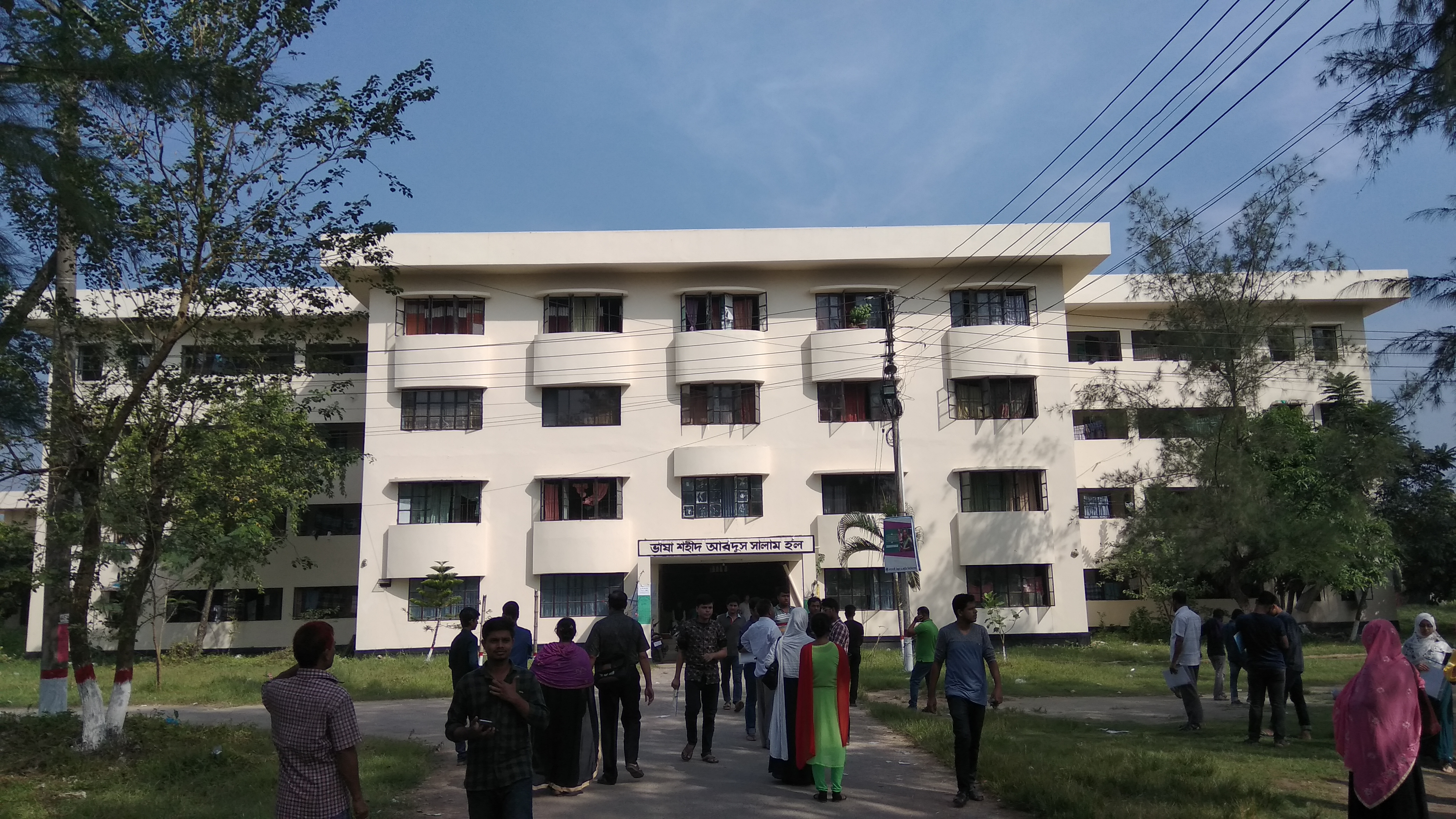 This is an image of Bhasa Shaheed Abdus Salam Hall in Noakhali Science and Technology University.